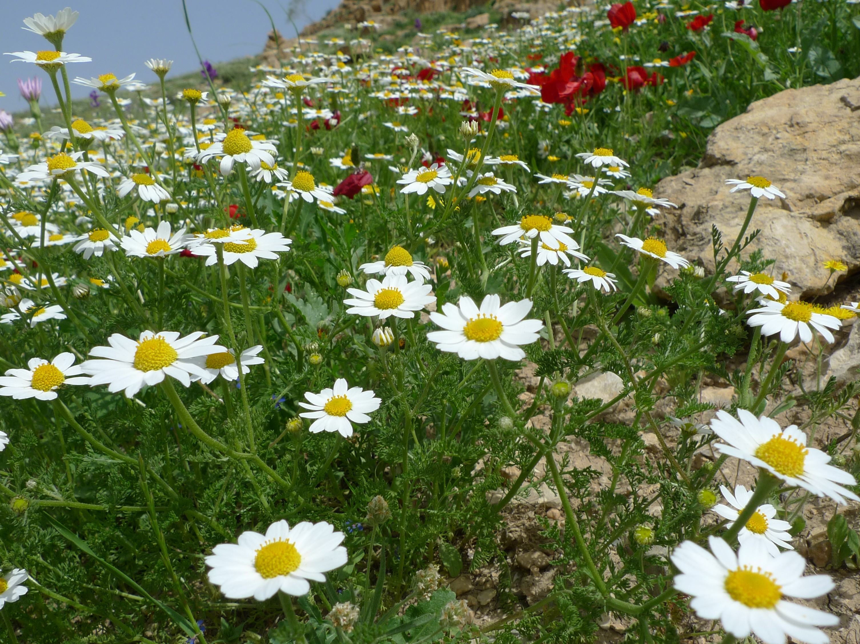 Dead Sea endemic some 100s of metres above the Dead Sea on the Jordan side.